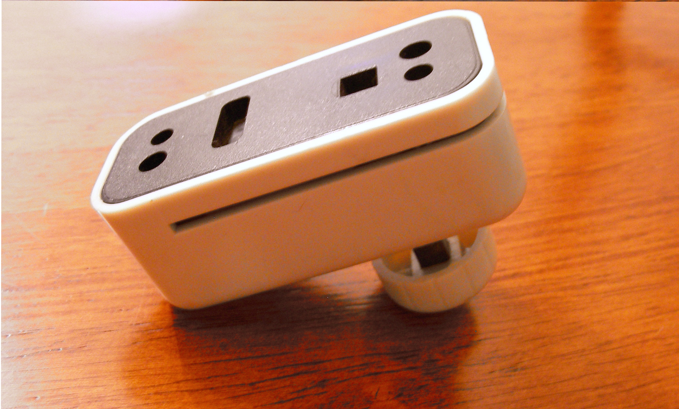 Reduced the size of original image by remove redundant half